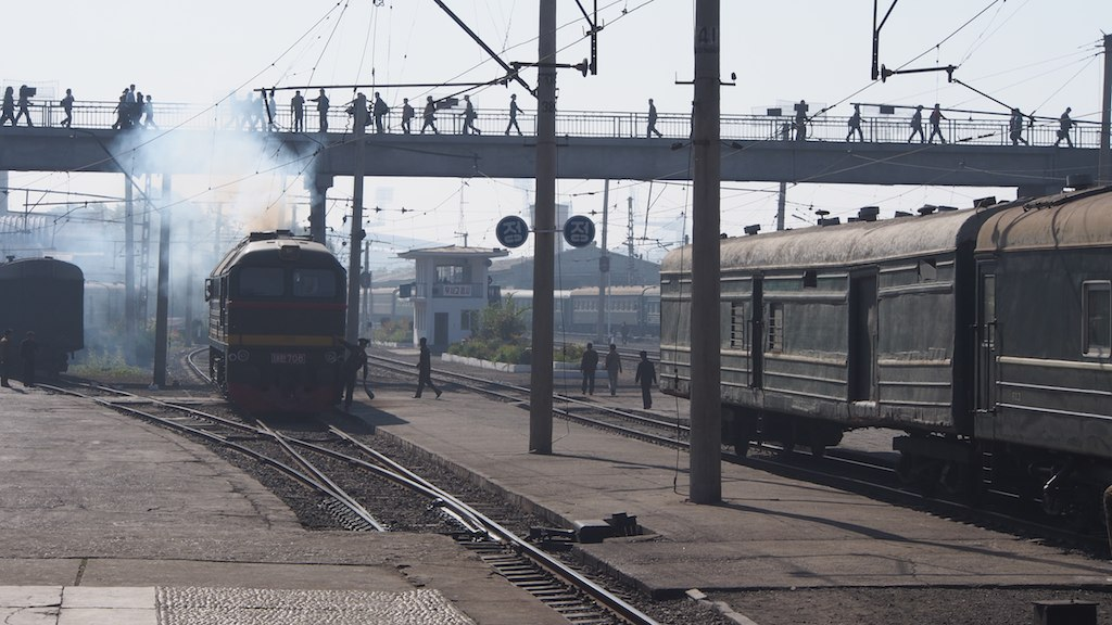 The diesel backing down is an M62 built in the Soviet Union and purchased second hand from the GDR (East Germany).